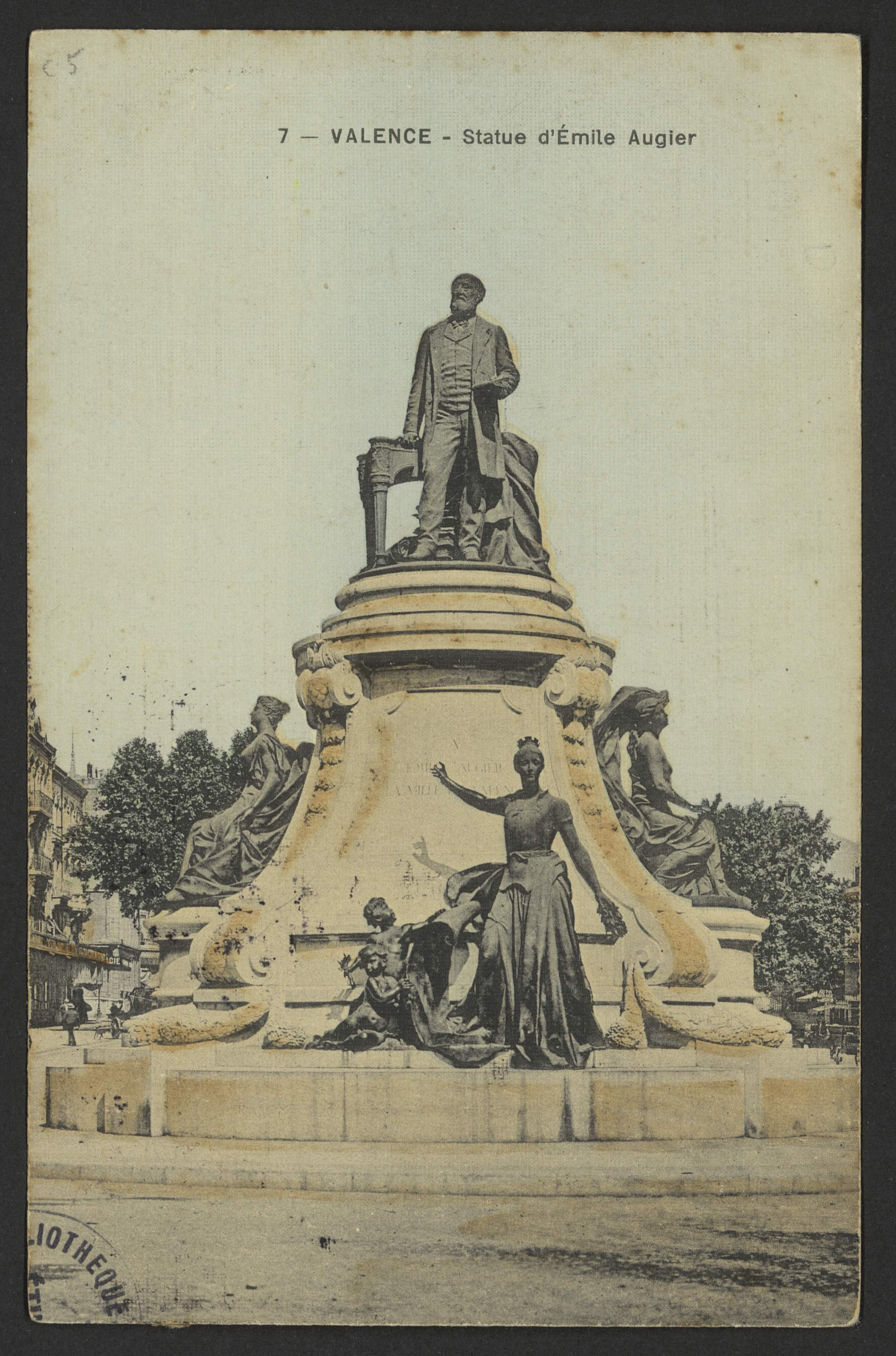 CA 1903